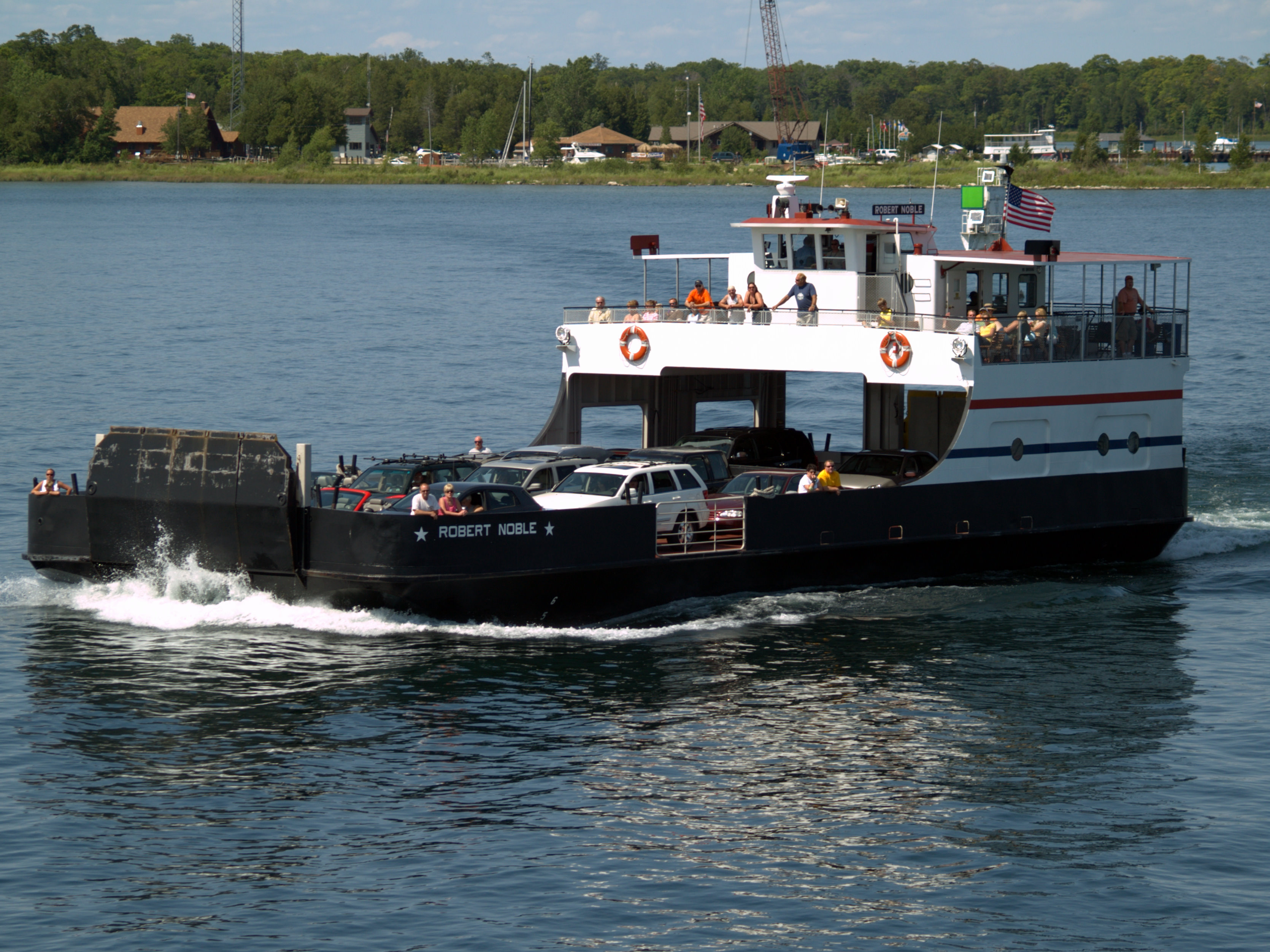 Robert Noble Ferry taken from the Washington Ferry.